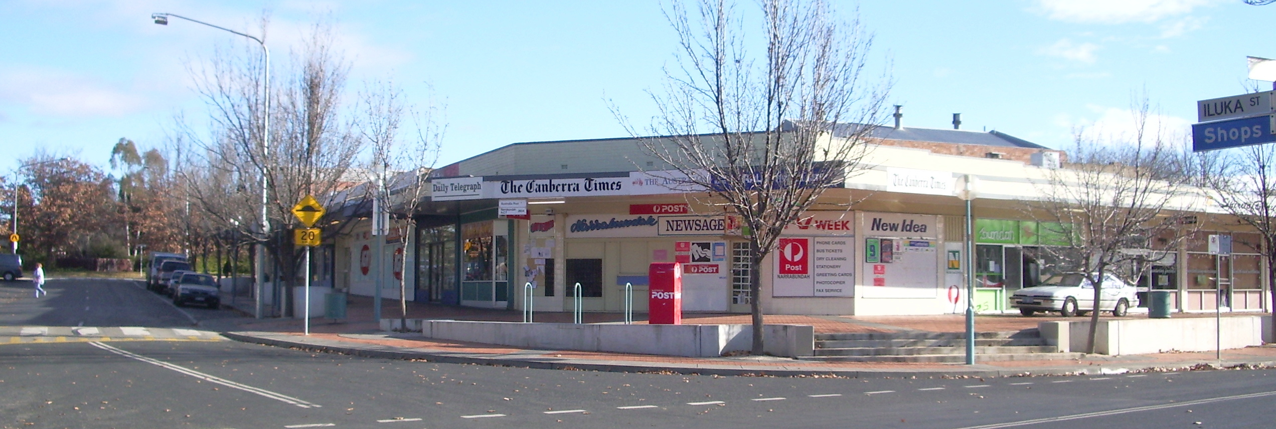 Narrabundah Shops from cnr Kootara Crescent and Iluka Street, Winter 2008. This image was taken by Wildplum69 and he is the copyright holder. The image was created using a camera. The image has been placed in the public domain